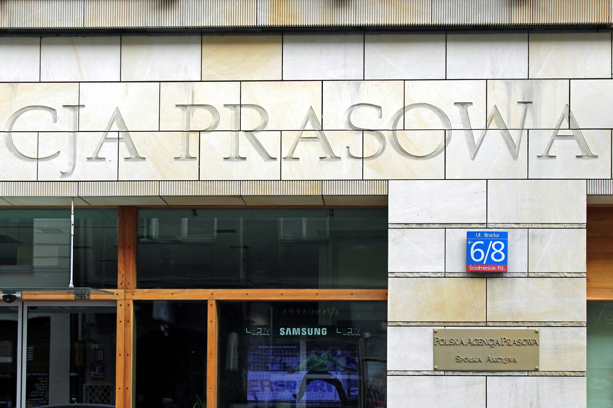 Wer dieses Bild benutzen möchte, der möge bitte den Link auf seiner Seite einbinden. If you want to use this picture, please implement the link on the website containing the picture.